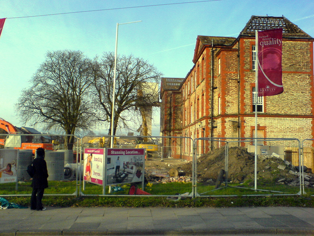 Withington Community Hospital, taken in West Didsbury, Manchester, England.